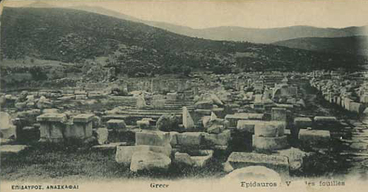 Epidavros, Greece in a 1909 postcard